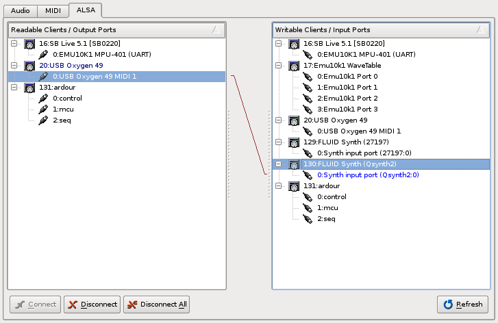 An example how the ALSA tab of qjackctl may look.